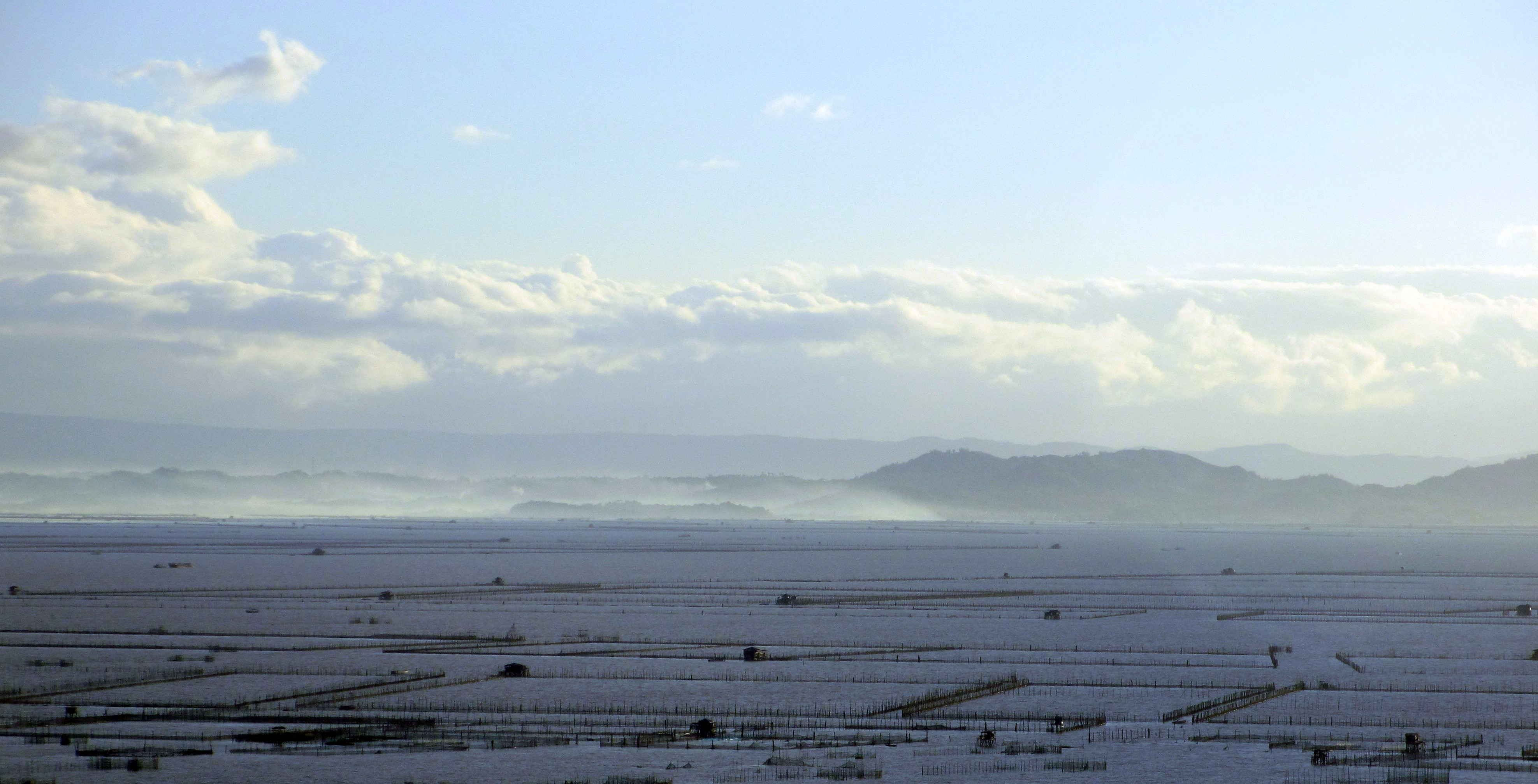 Morning view, Laguna de Bay, from Hotel Vivere